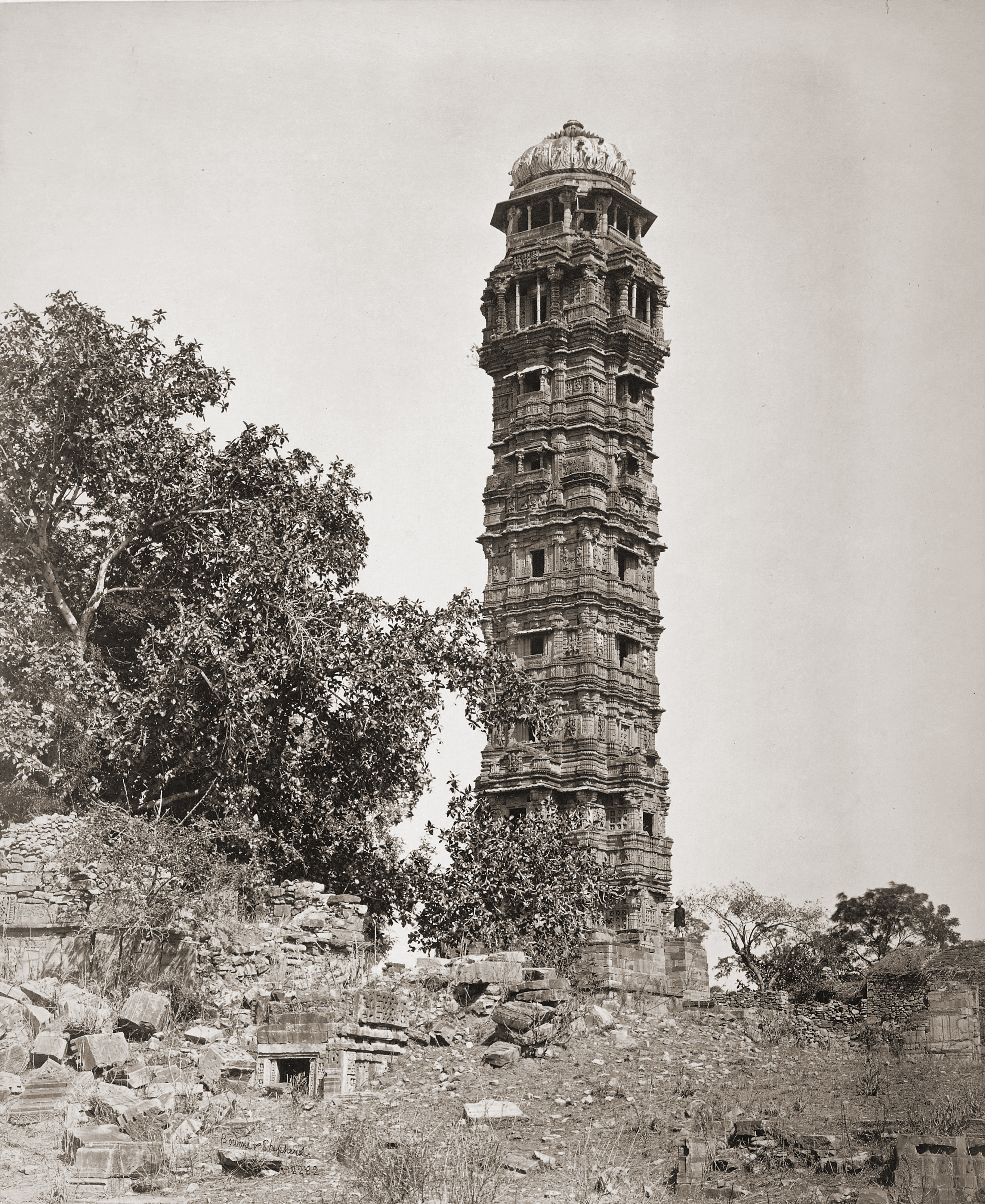 Jaya Sthamba, Chittorgarh Fort